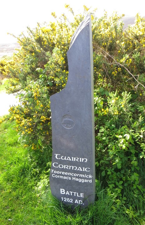 Memorial stone for the 1262 battle-site of Tooreencormick, on the northern slope of Mangerton Mountain, Killarney, Ireland